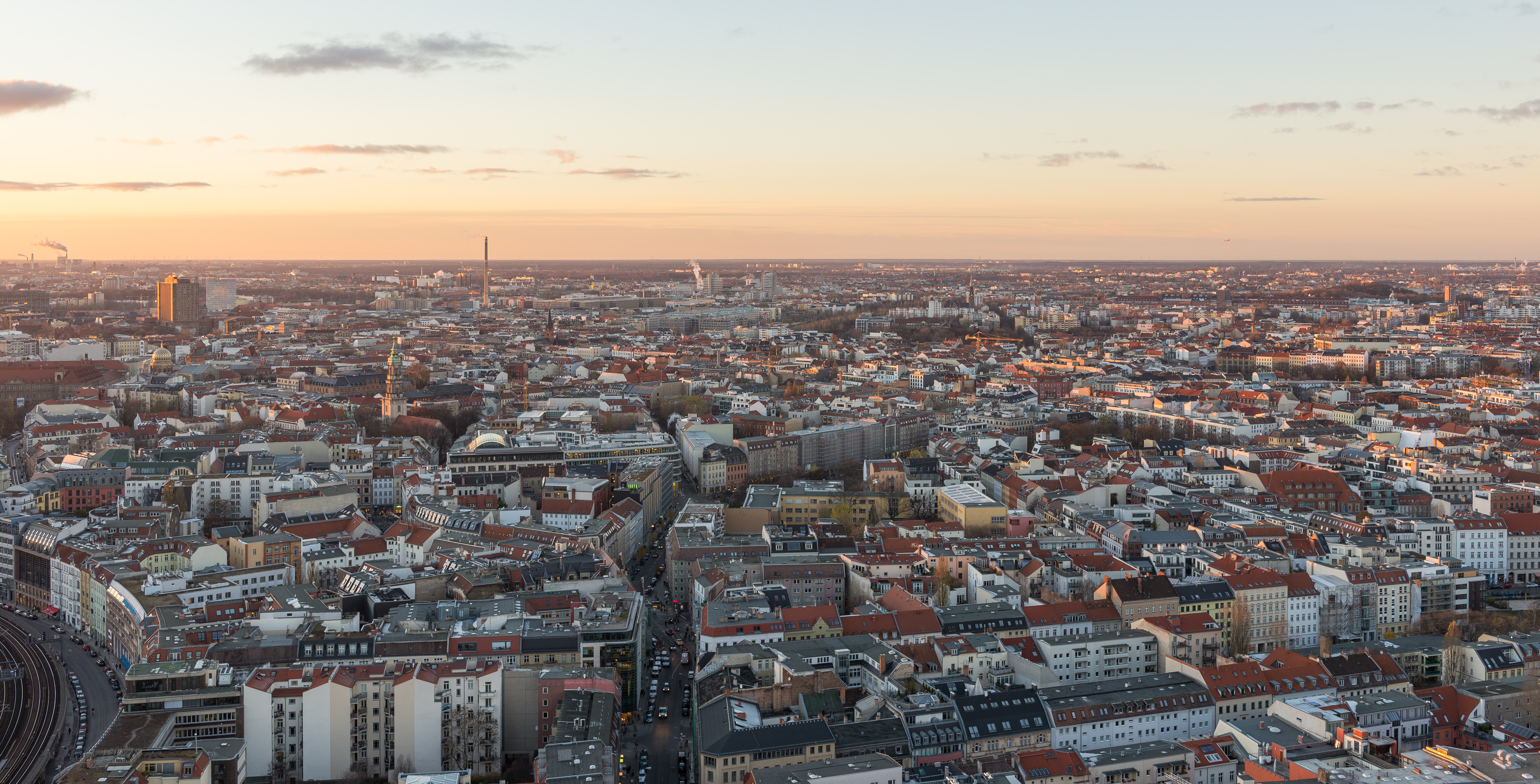 View of Berlin from the viewing point of Park Inn, Alexanderplatz.